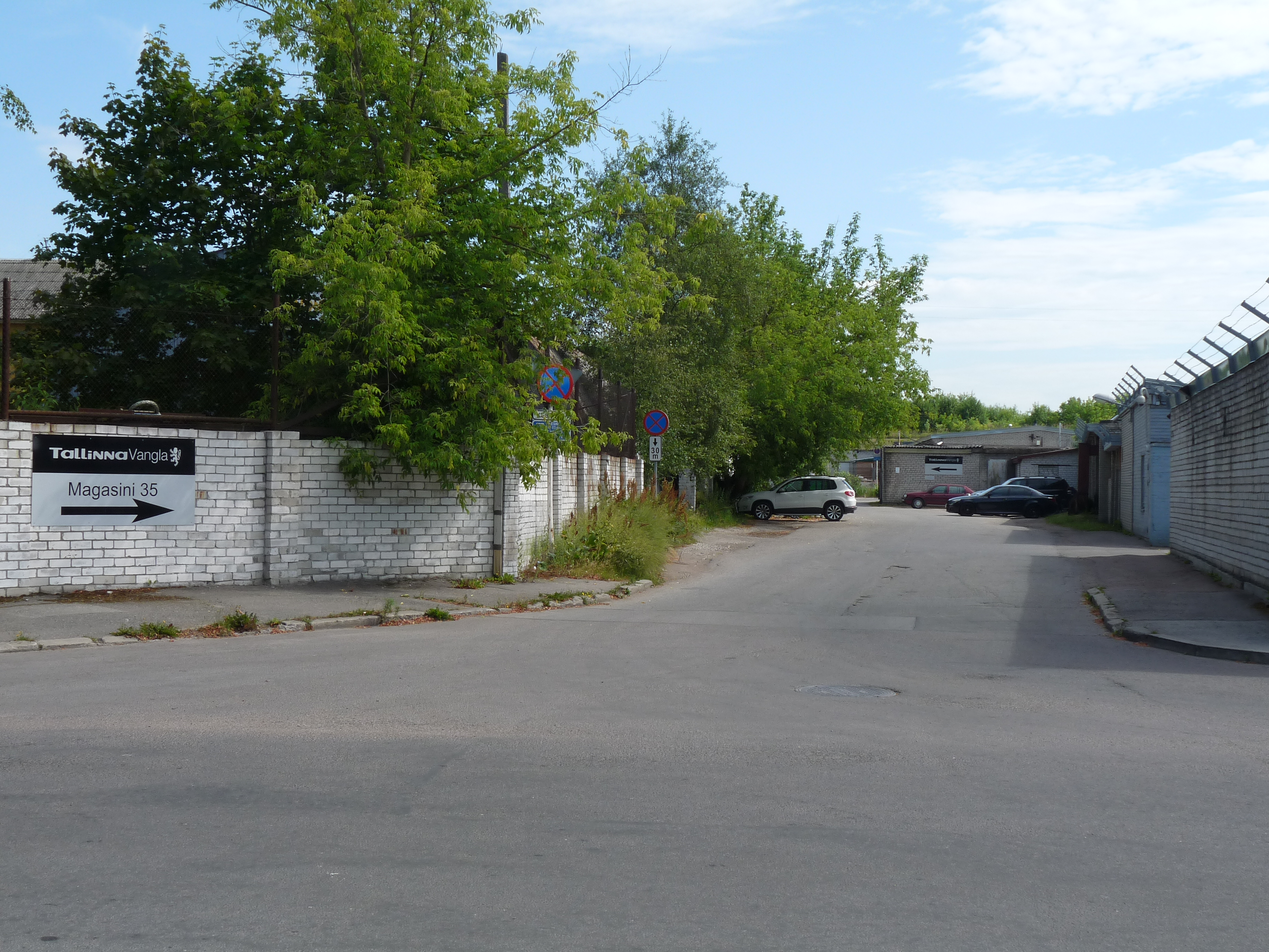 Gates of Tallinn prison